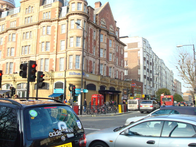 Hilton London Hyde Park Hotel, Bayswater Road, London W2